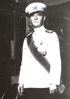 Professeur Silpa Bhirasri